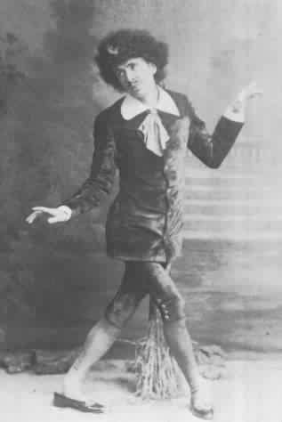 Photo of George Grossmith as Reginald Bunthorne in Patience, 1881